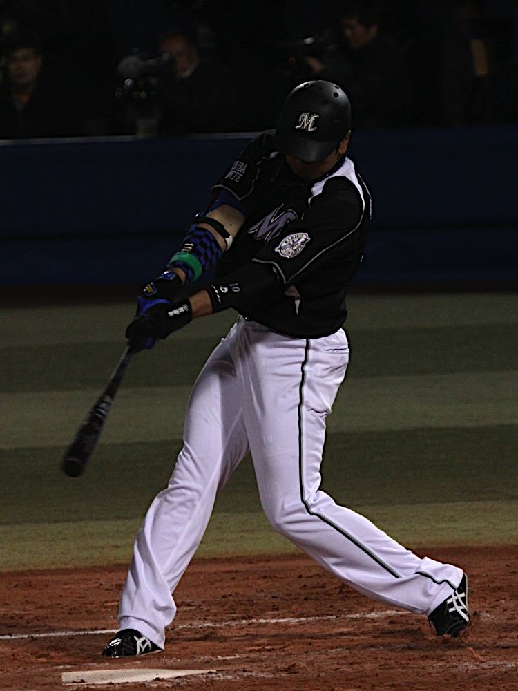 Shoitsu Ohmatsu, outfielder of the Chiba Lotte Marines, at Yokohama Stadium.